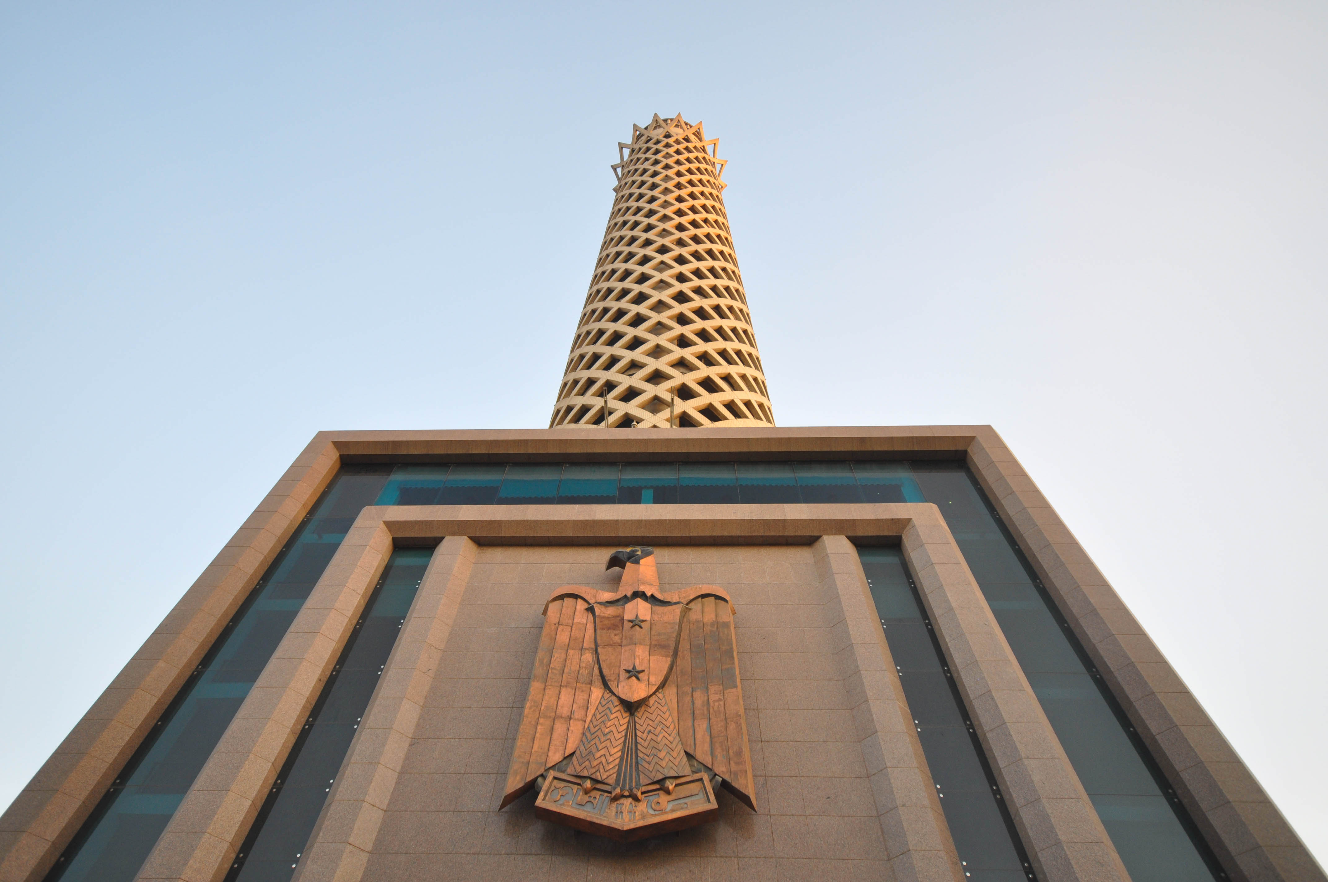 The Cairo Tower is a free-standing concrete tower located in Cairo, Egypt. At 187 m, it has been the tallest structure in Egypt and North Africa about 50 years. It was the tallest structure in Africa for 10 years, until 1971 when it was surpassed by Hillbrow Tower in South Africa. One of Cairo's well-known modern monuments, sometimes considered Egypt's second most famous landmark after the Pyramids of Giza, it stands in the Zamalek district on Gezira Island in the River Nile, close to Downtown. History Built from 1954 to 1961,the tower was designed by the Egyptian architect Naoum Shebib.[1] Its partially open lattice-work design is intended to evoke a pharaonic lotus plant, an iconic symbol of Ancient Egypt. The tower is crowned by a circular observation deck and a rotating restaurant with a view over greater Cairo. One rotation takes approximately 70 minutes. In the 1960s, Egyptian President Gamal Abdel Nasser announced that the funds for the construction of the Tower originated with the Government of the United States, which had provided $6,000,000 to him as a personal gift with the intent of currying his favour. Affronted by the attempt to bribe him, Nasser decided to publicly rebuke the U.S. government by transferring the entirety of the funds to the Egyptian government for use in building the Tower. Between November 2004 and 17 May 2009 it underwent a EGP 35 million restoration project, completed in time for its fiftieth anniversary on April 2011